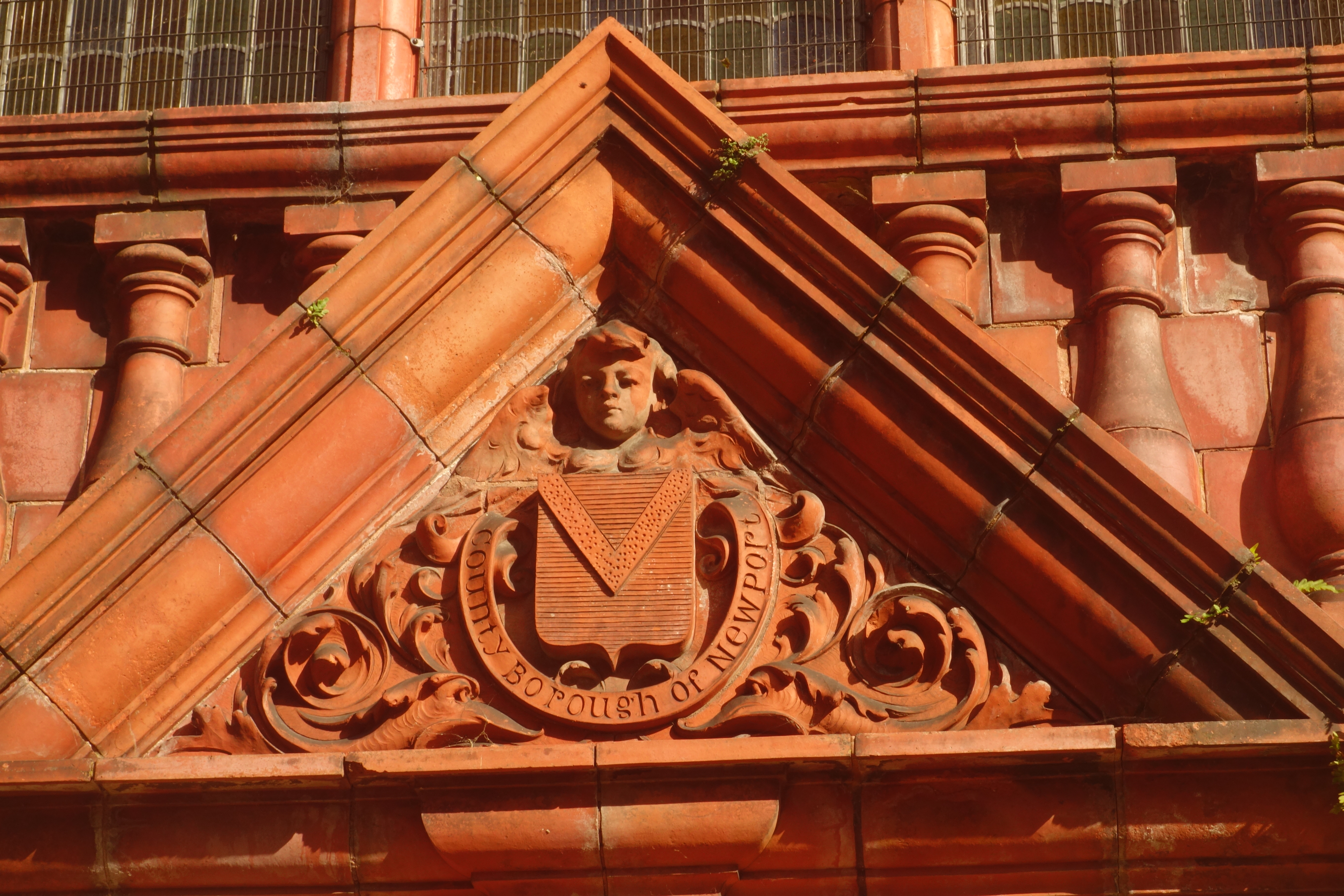 Pavilion and attached Conservatories Wikidata has entry Q29494576 with data related to this item. The crest of Newport Borough, carved in red brick on the pavilion in Belle Vue Park.